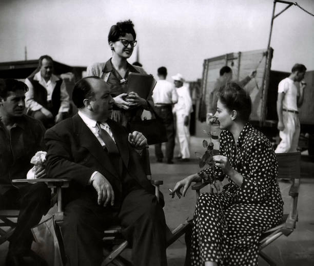 Photo of John Hodiak, Alfred Hitchcock & Tallulah Bankhead taken for film Lifeboat (1944). See also film still. No copyright notice.